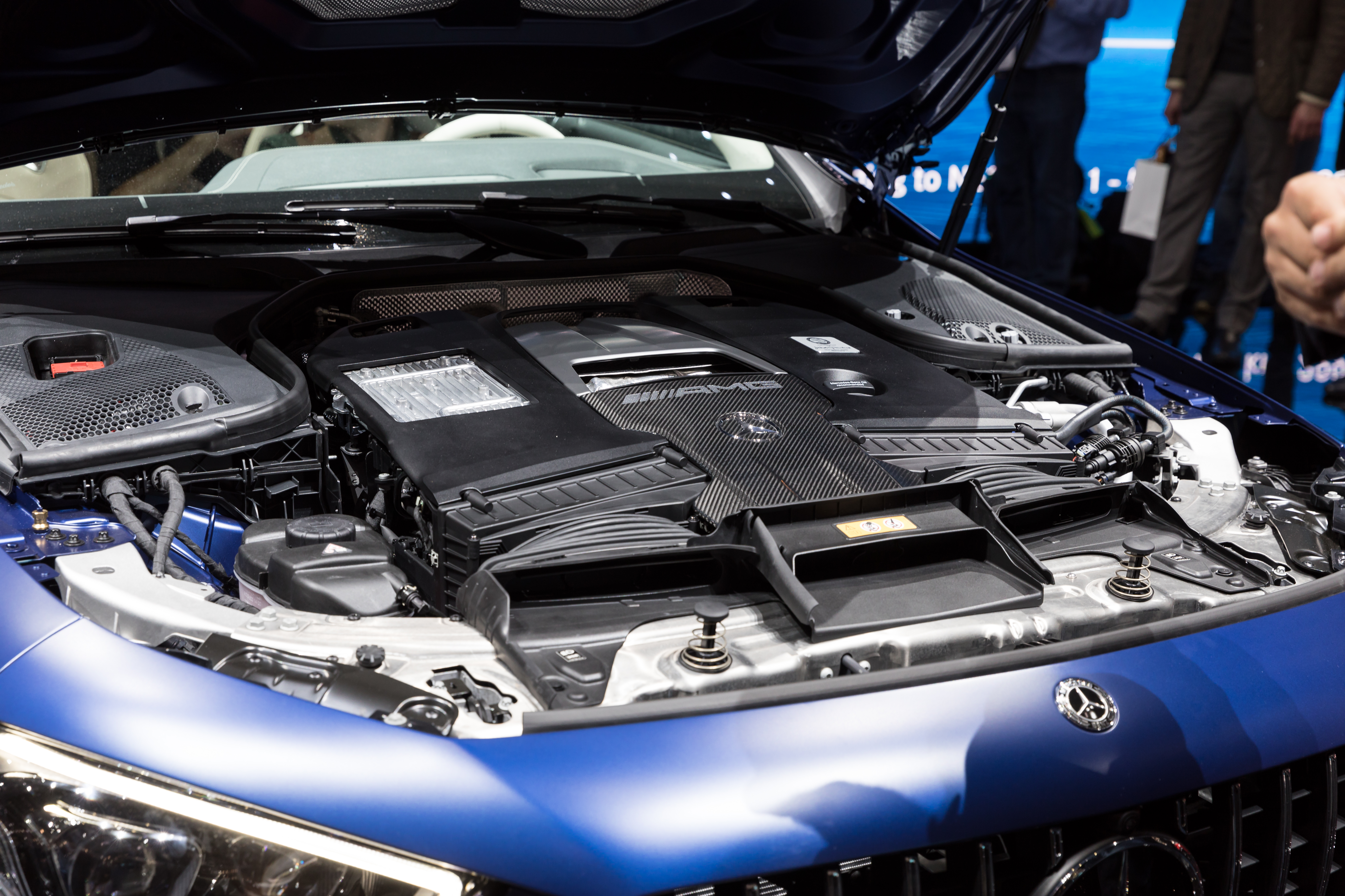 M177 engine of the Mercedes-AMG GT 63 S at Geneva International Motor Show 2018